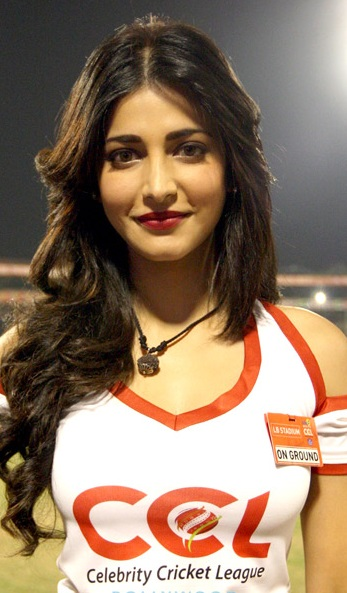 Haasan supporting Telugu Warriors at CCL